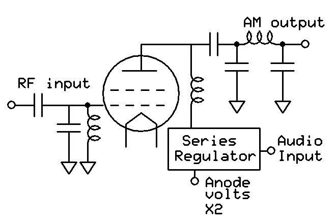 Schematic diagram for a series modulator for an AM transmitter.